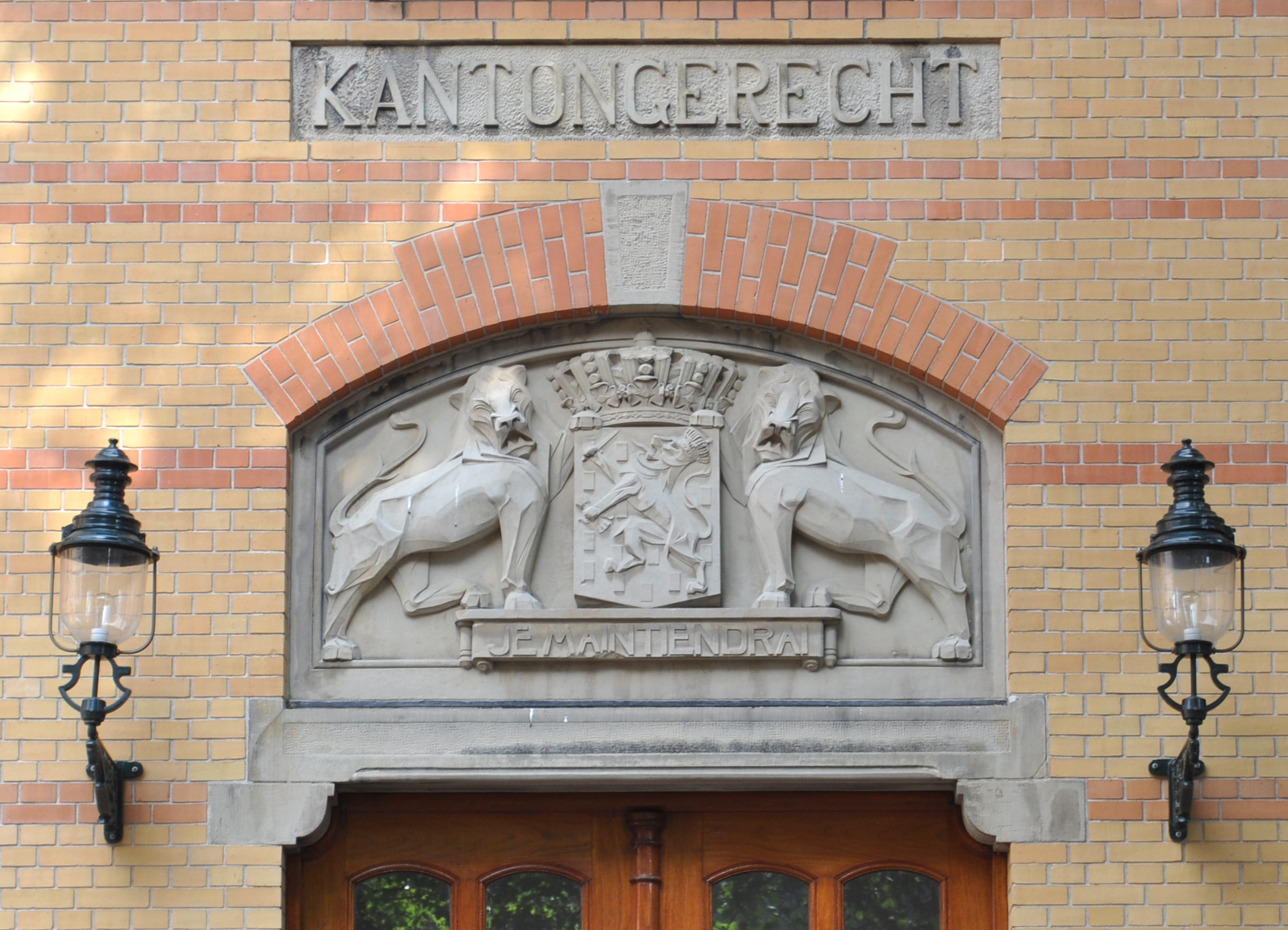 Relief of the shield of the Netherlands above the entrance of the courthouse at the Hamburgerstraat in Utrecht.